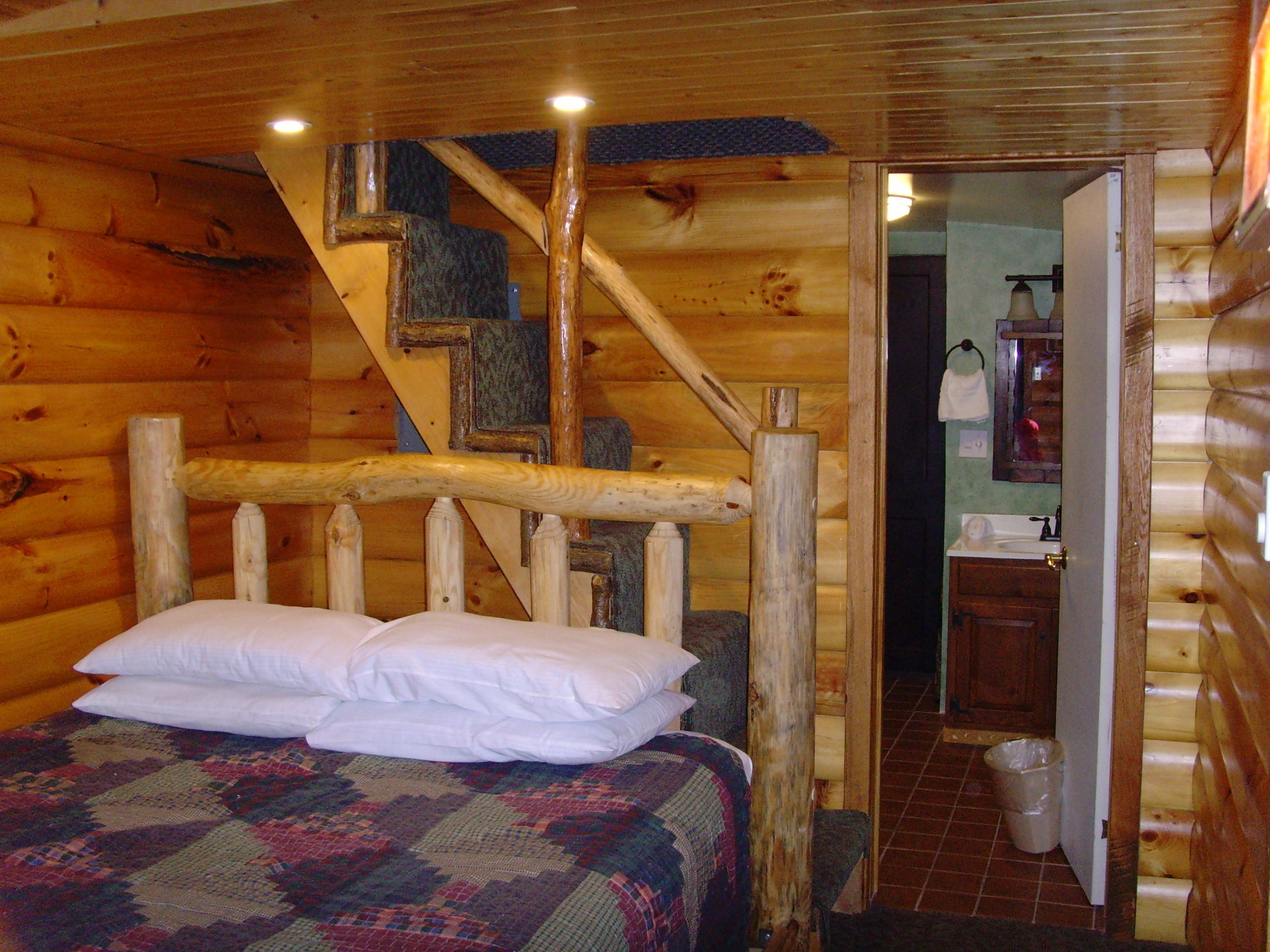 0432 Strasburg - Red Caboose Motel